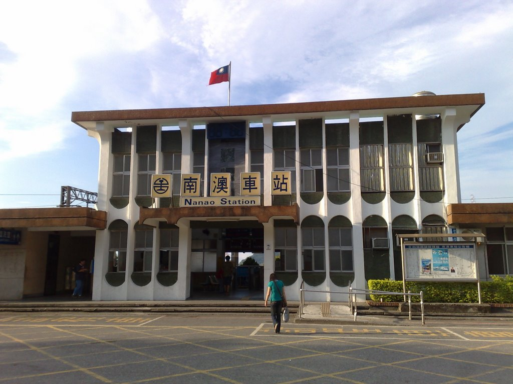 Taiwan Railway Administration Nan-ao Station.